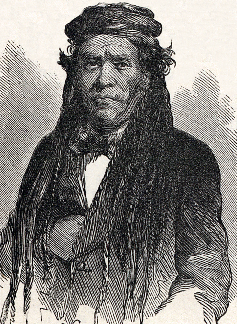 Chief Irataba of the Mojave Nation, February 1864, artist's impression